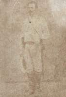 General cubano